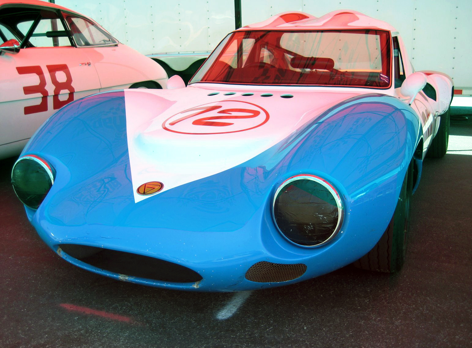 1965 Ginetta G12 racer (chassis no 25) at the 2009 Monterey Historics, Laguna Seca.